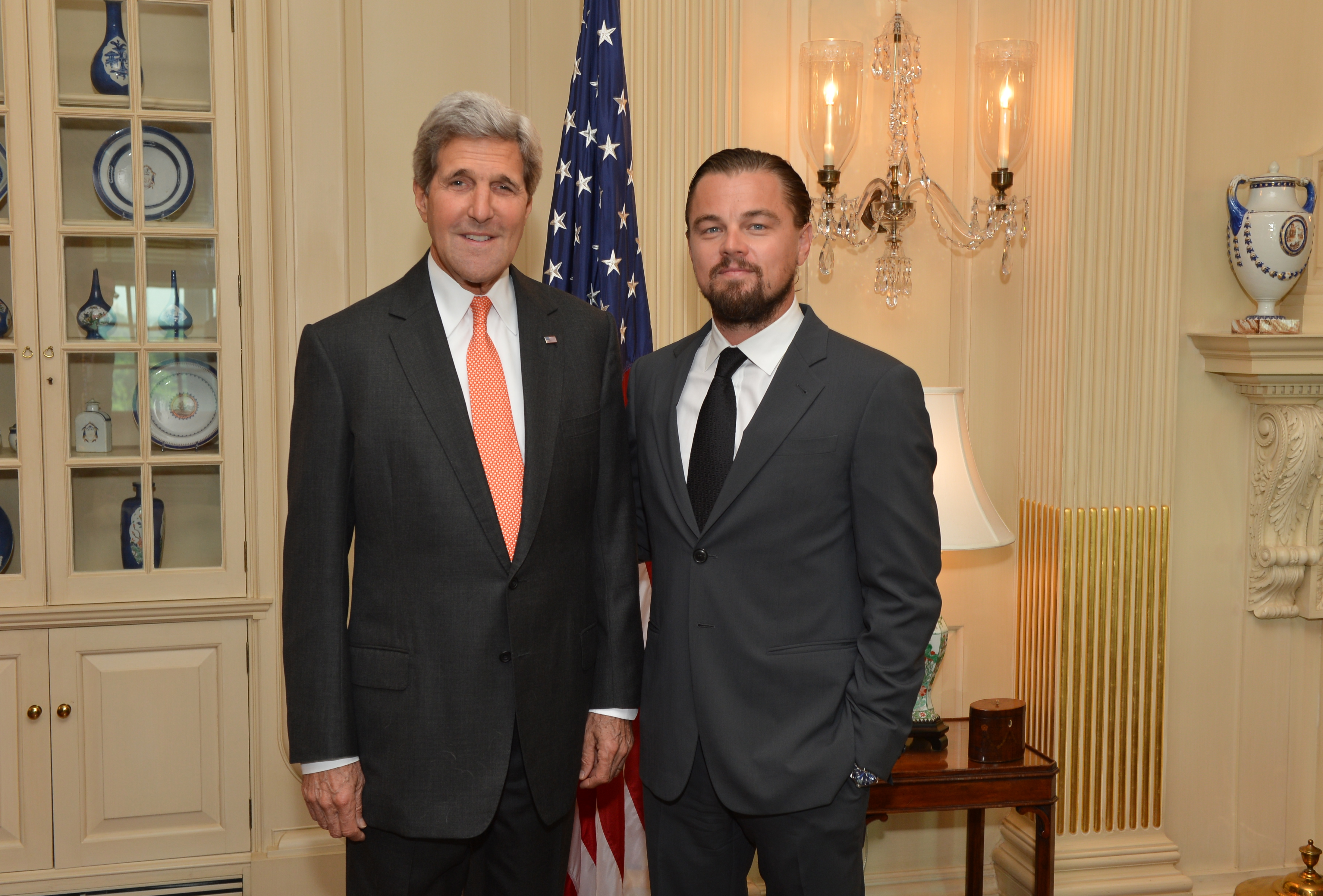 U.S. Secretary of State John Kerry Poses for a photo with Leonardo DiCaprio at the U.S. Department of State in Washington, D.C. on June 17, 2014. [State Department photo/ Public Domain]